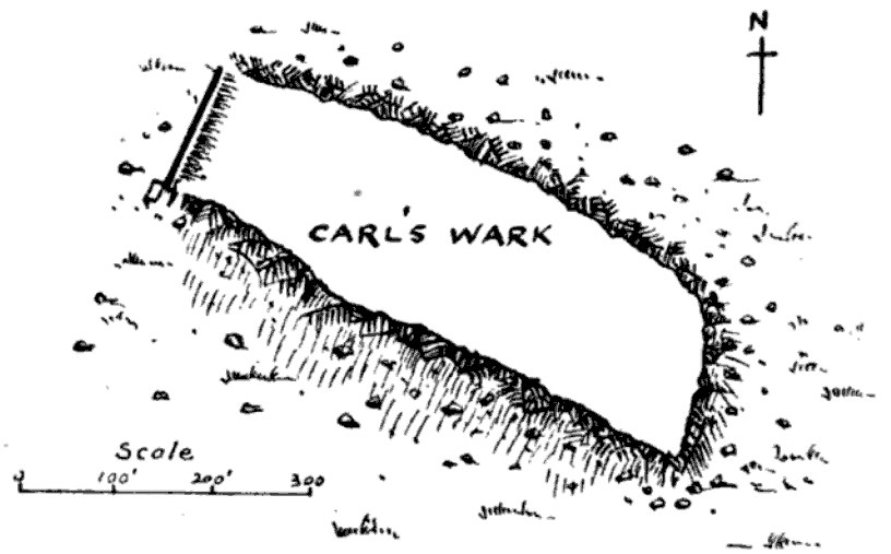 Plan of Carl Wark, Sheffield, England